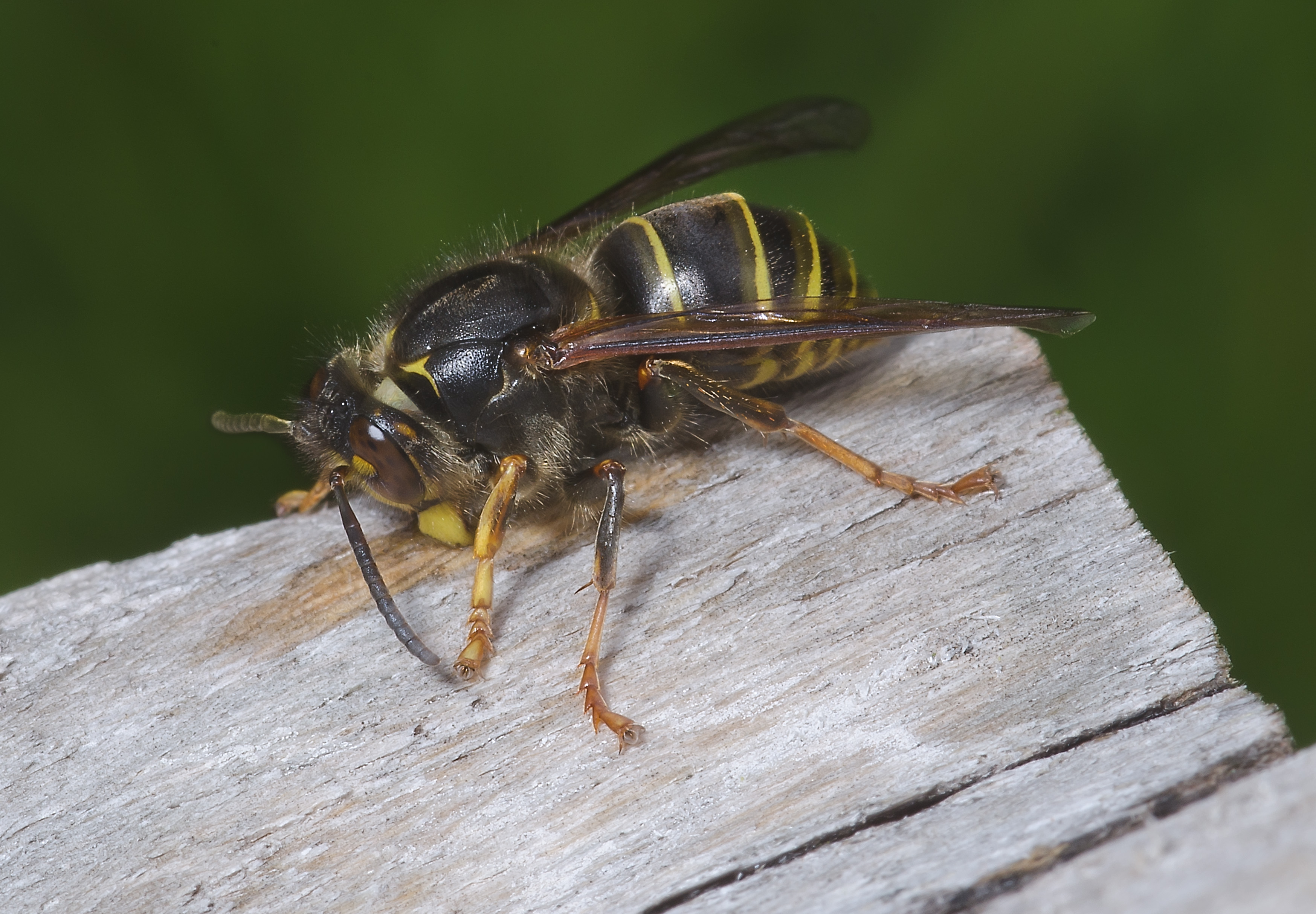 Median wasp (Dolichovespula media), worker, forest near Stuttgart, Germany. Thanks to the members of Entomologie.de for the identification.